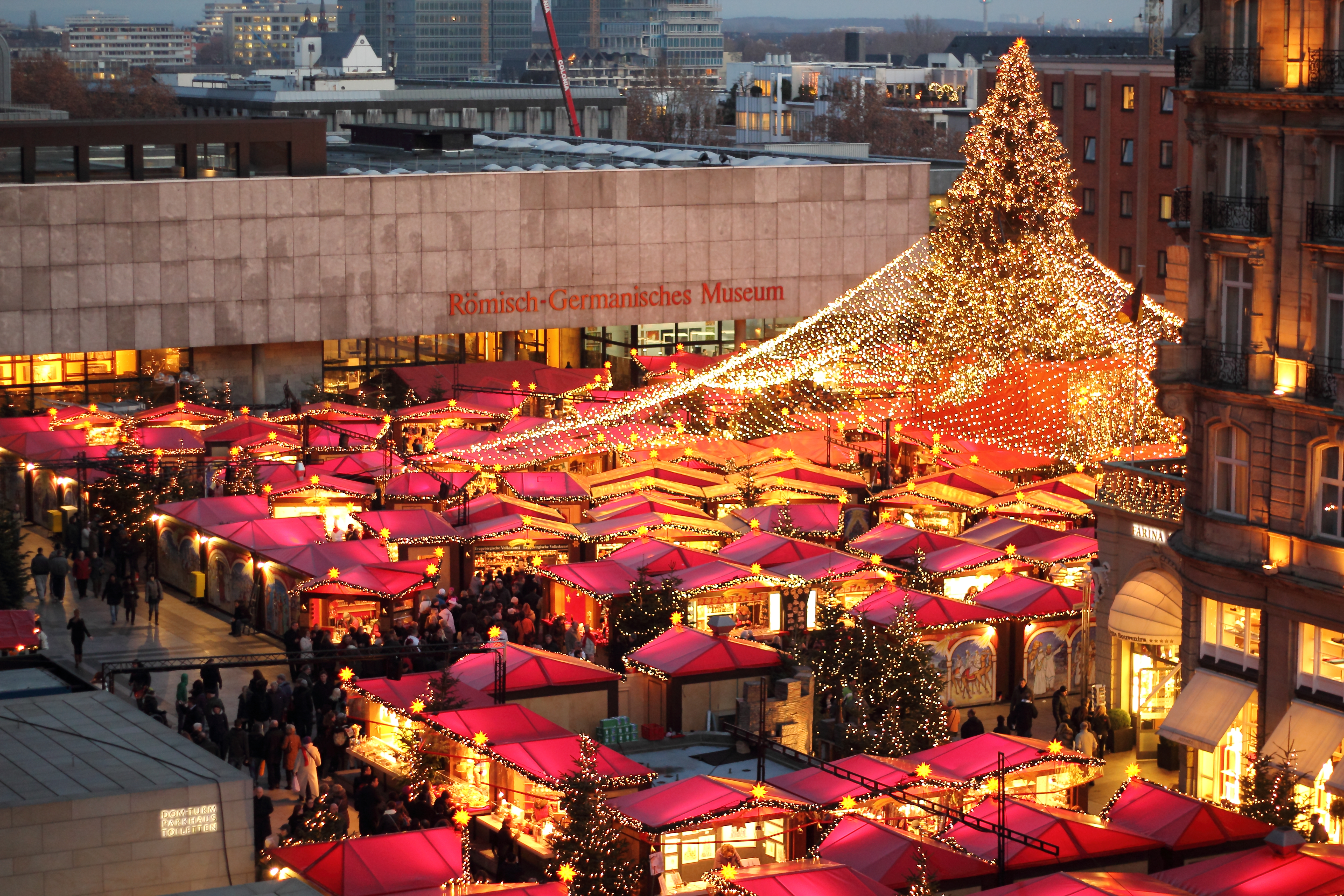 Christmas Market at the Cologne Cathedral 2011